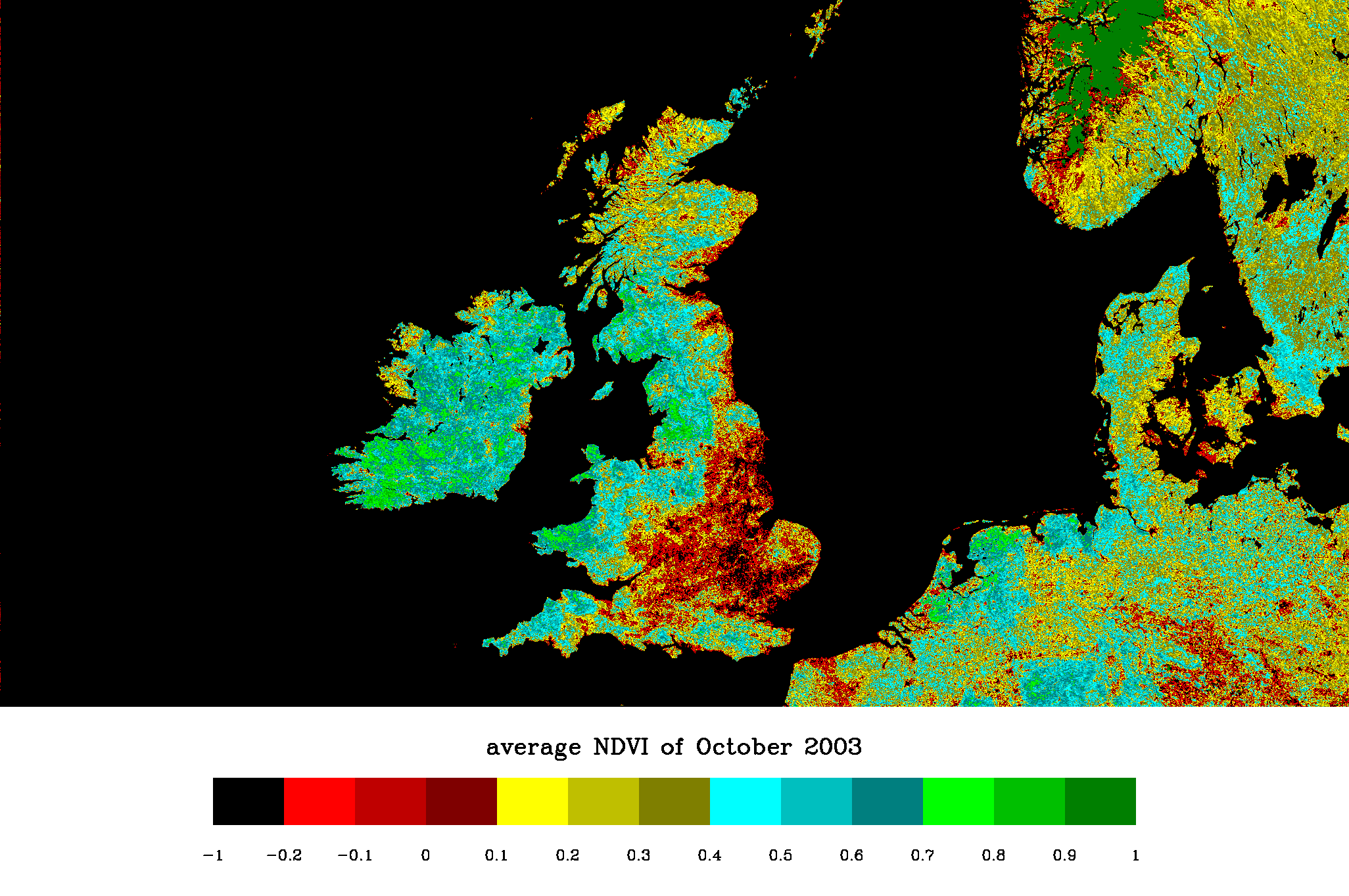 Average NDVI in October 2003 over the British Isles (NOAA AVHRR)